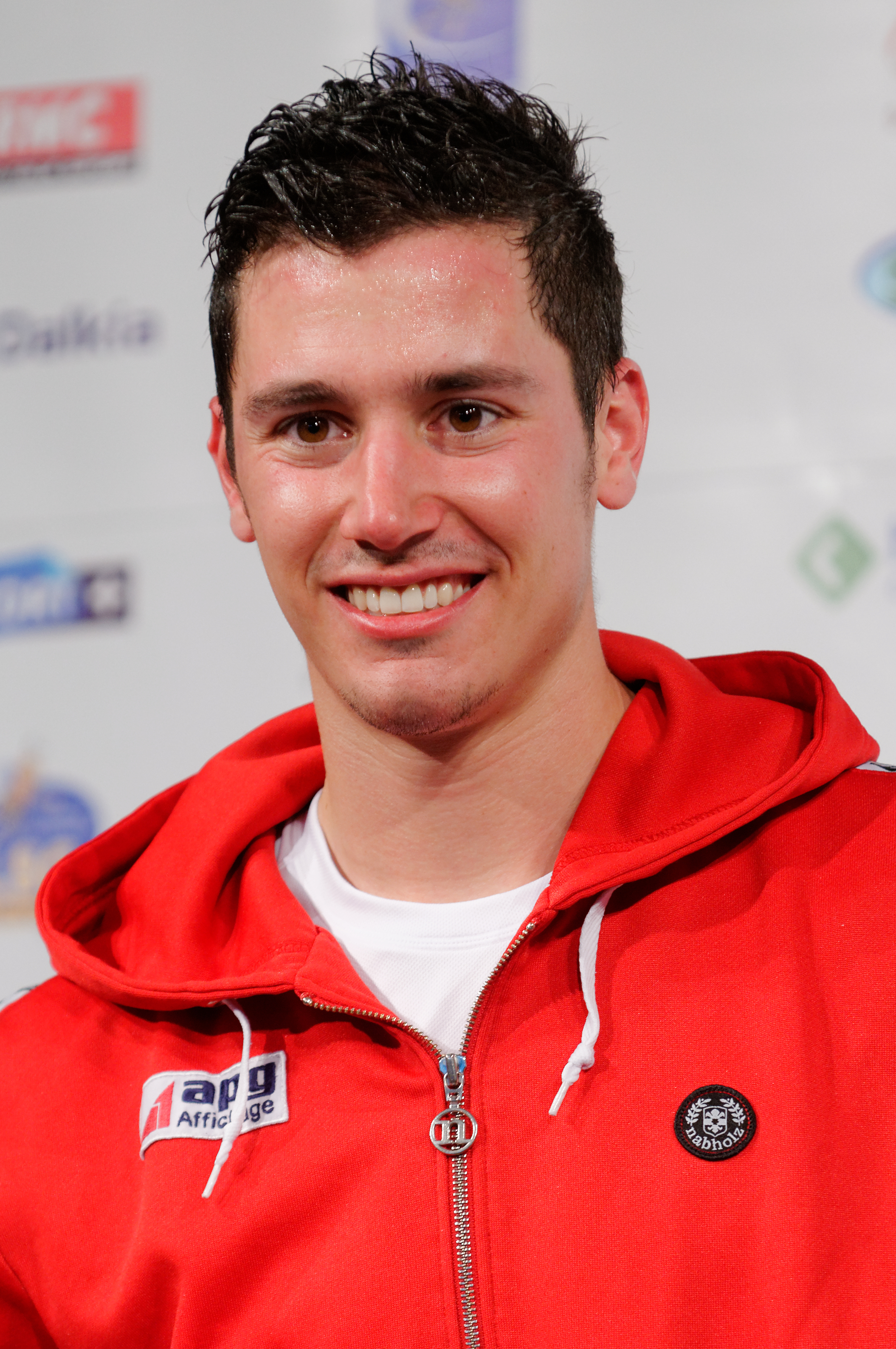 Fabian Kauter on the podium of the Masters à l'épée 2012.